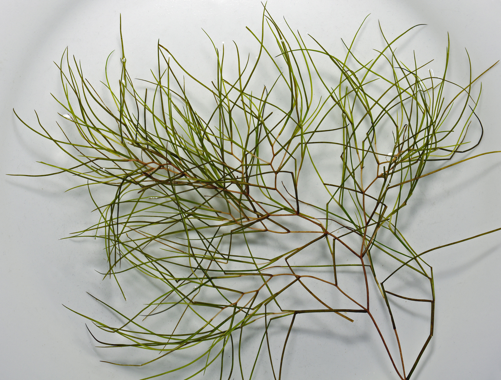 Part of the Fennel Pondweed (Potamogeton pectinatus var pectinatus; Syn.: Stuckenia pectinata).